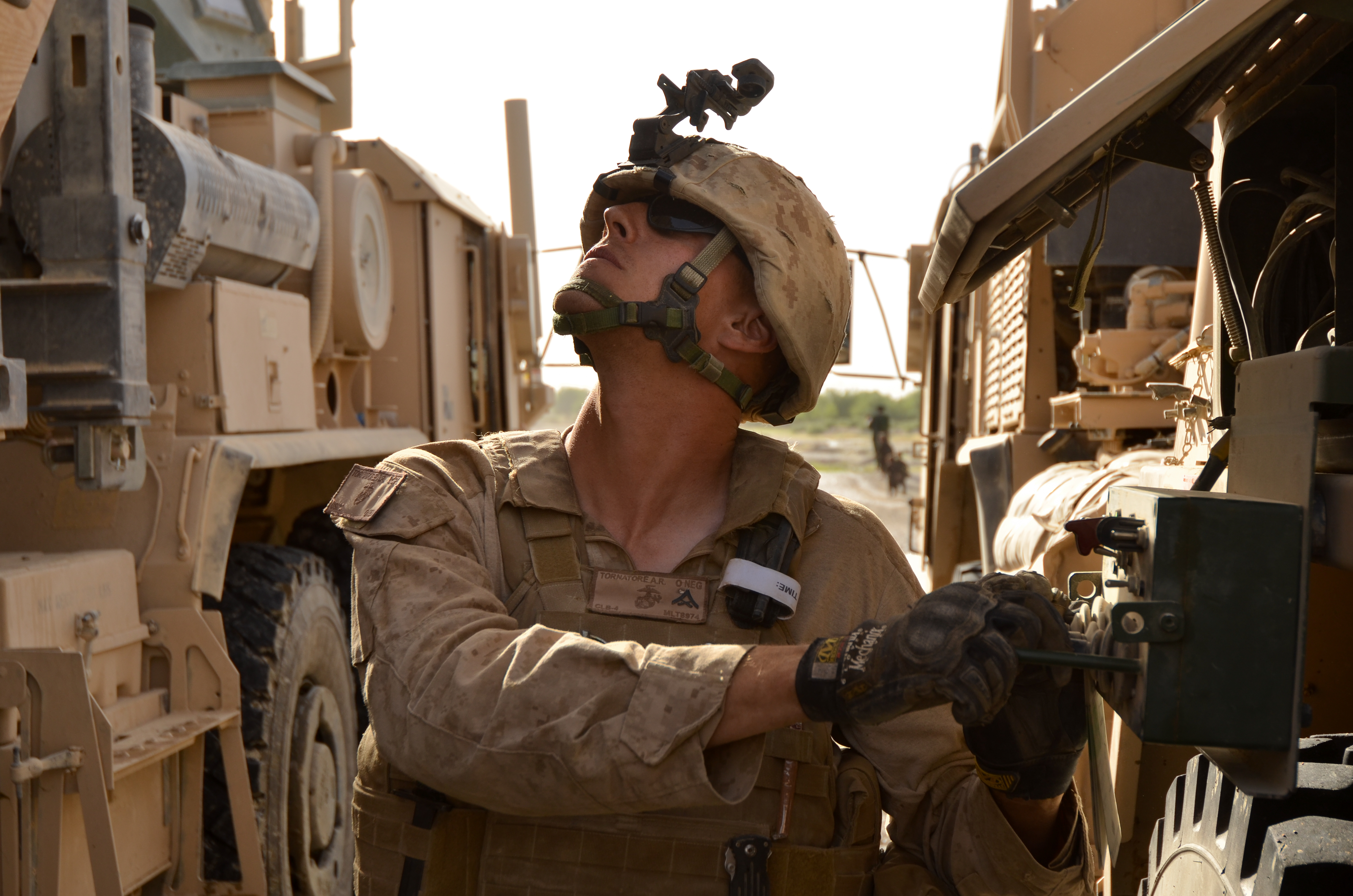 Lance Cpl. Adam R. Tornatore, wrecker operator, Support Company, Combat Logistics Battalion 4, 1st Marine Logistics Group (Forward), operates a crane on a MKR15 Logistics Vehicle System Replacement while adjusting a pallet of water that shifted during a combat logistics patrol in Helmand Province, May 28. The CLB-4 patrol supported Operation Branding Iron.